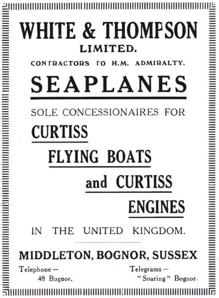 Scan of a White & Thompson advertisement